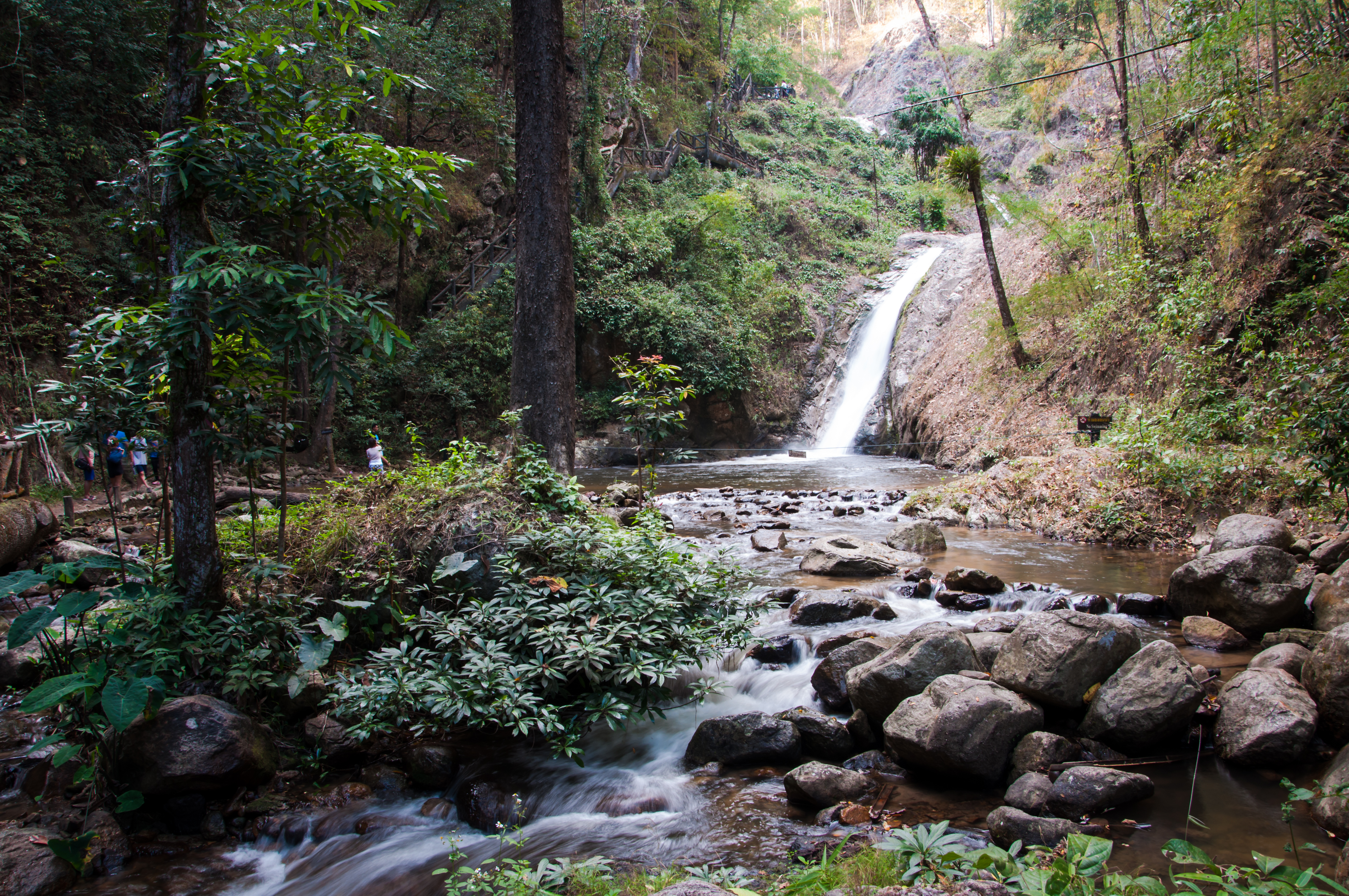 Chae Son Waterfall, Chae Son National Park, Lampang Thailand